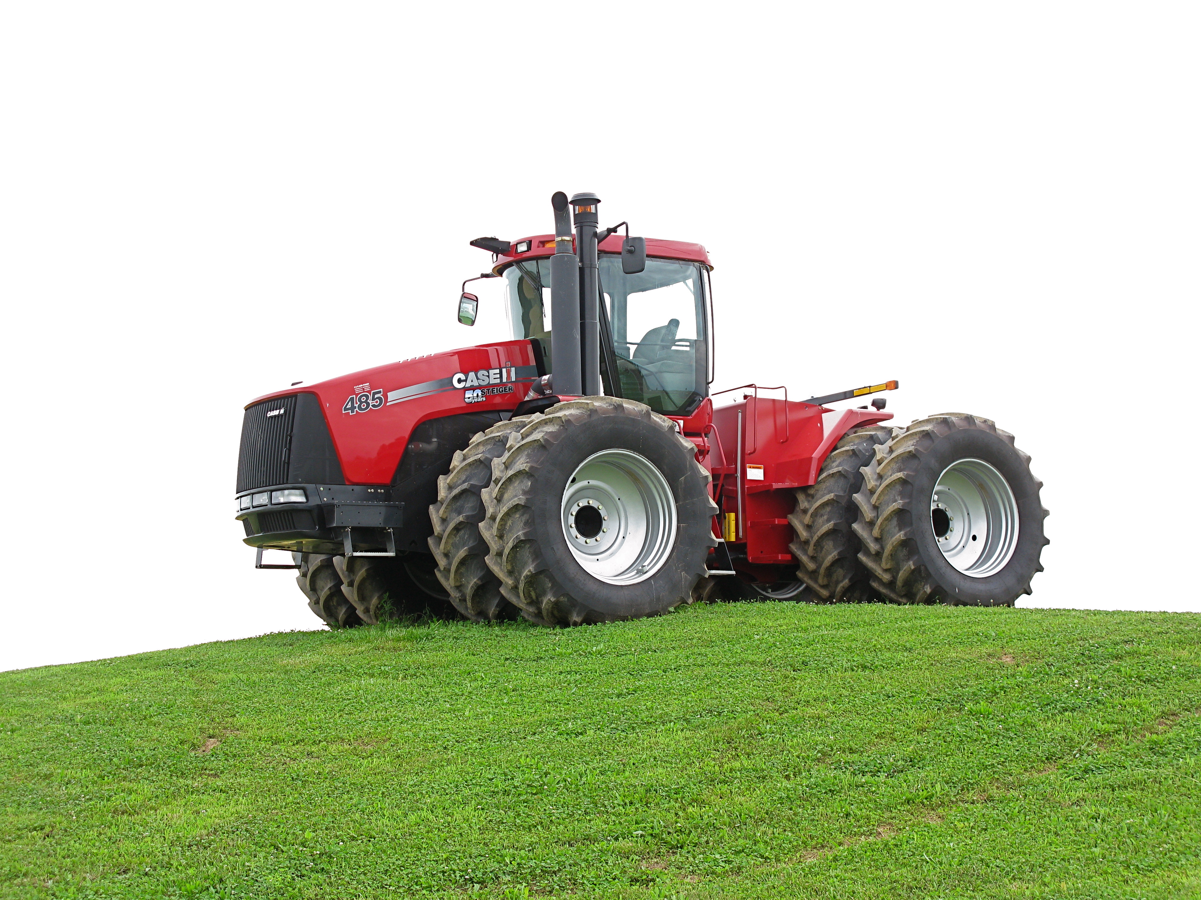 Case IH STX 485 Steiger tractor (Vergennes, Illinois, USA)